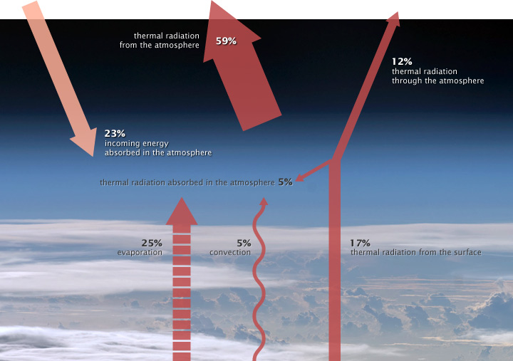 The atmosphere radiates the equivalent of 59% of incoming sunlight back to space as thermal infrared energy, or heat. Where does the atmosphere get its energy? The atmosphere directly absorbs about 23% of incoming sunlight, and the remaining energy is transferred from the Earth’s surface by evaporation (25%), convection (5%), and thermal infrared radiation (a net of 5-6%). The remaining thermal infrared energy from the surface (12%) passes through the atmosphere and escapes to space. (NASA illustration by Robert Simmon. Astronaut photograph ISS017-E-13859.) See also NASA Earth’s Energy Budget and The NASA Earth's Energy Budget Poster